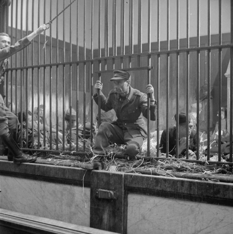 Germans and Collaborators in Zoo Lion's Cage in Antwerp Thenewly liberated peopl of Antwerp showed their feelings towards the german prisoners and belgian collaborators by locking them in the Lions cage at the zoo